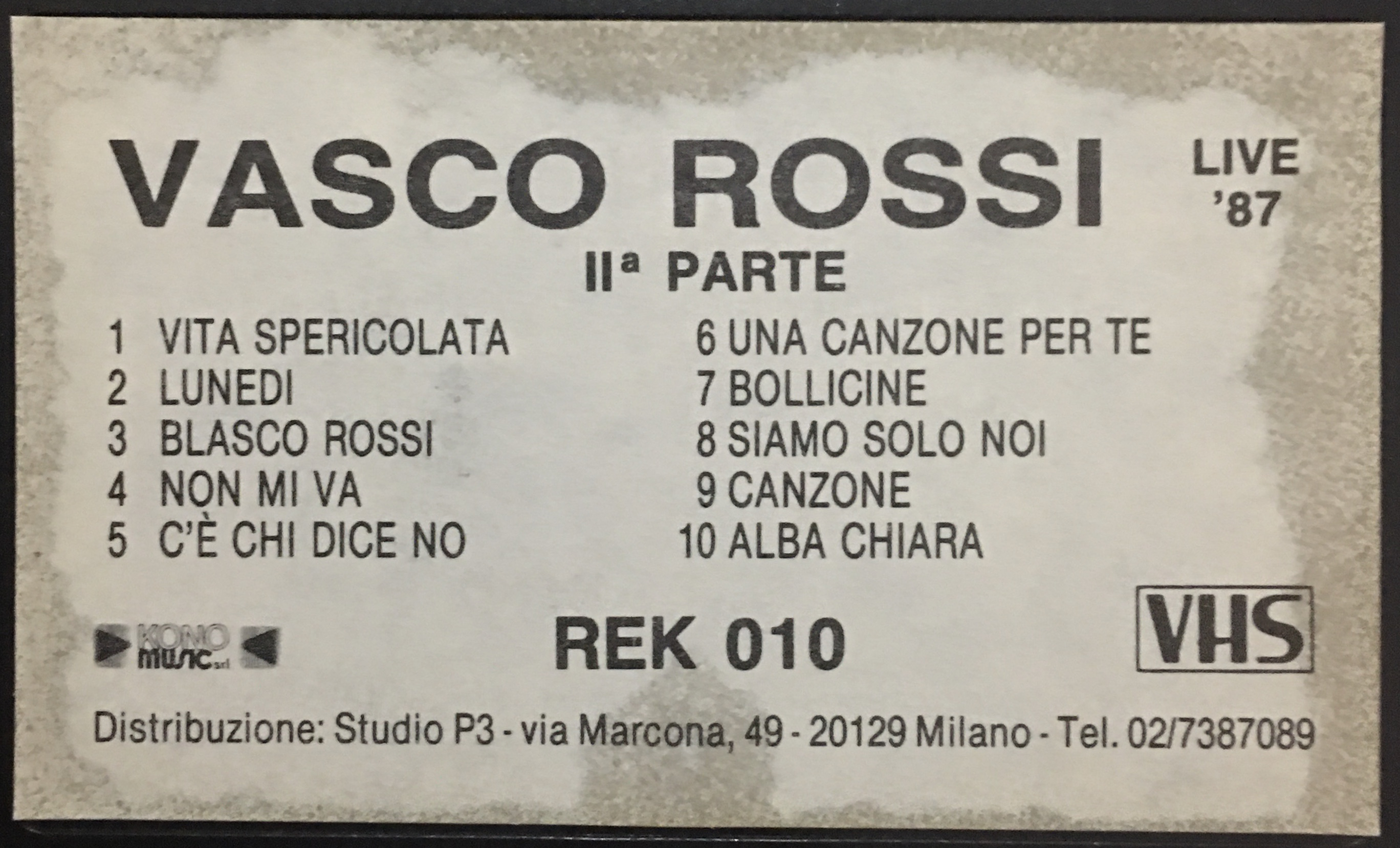 Picture of VHS label owned by me. Mainly reporting titletrack and distributor factory's name.